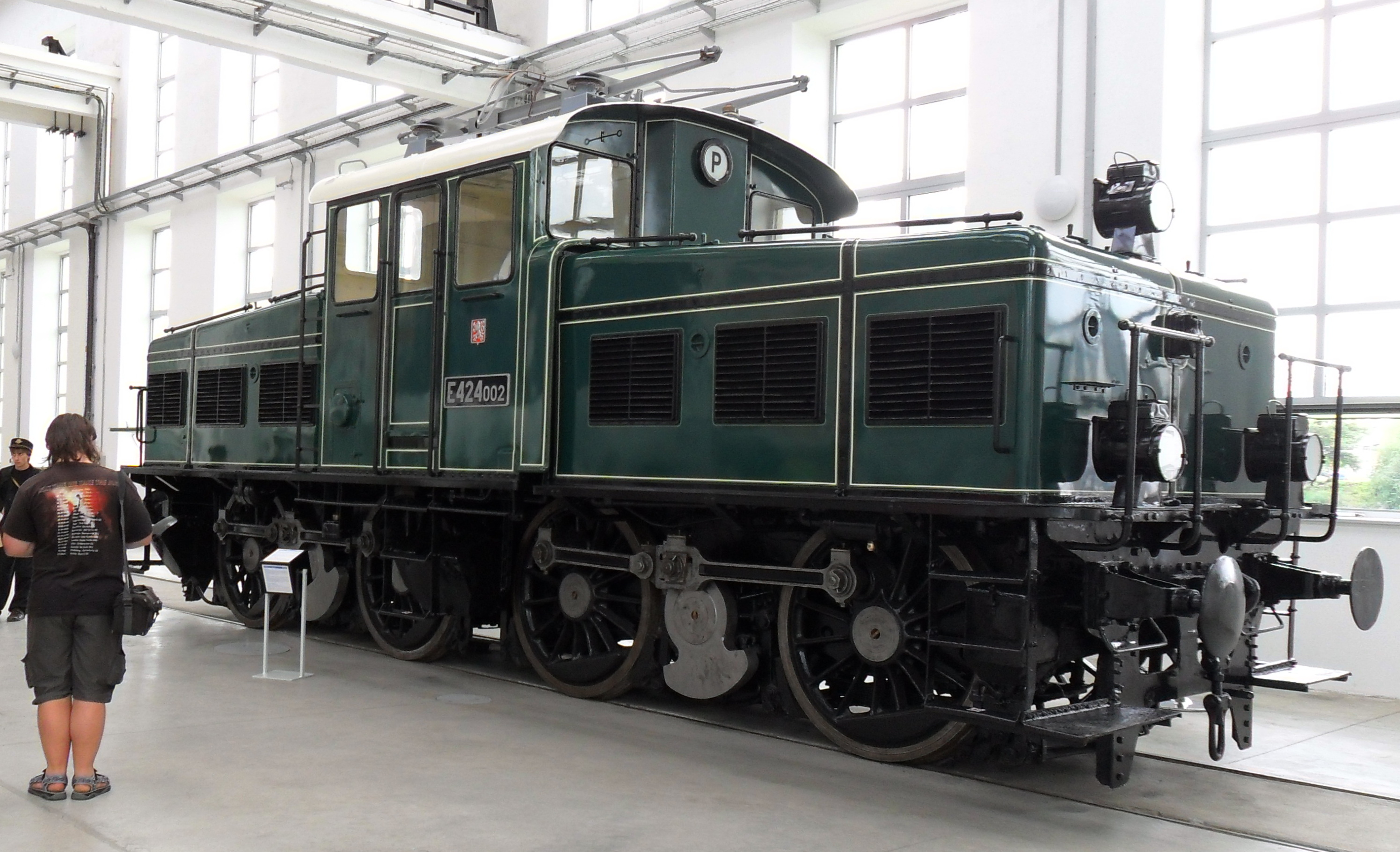 Škoda 2Elo